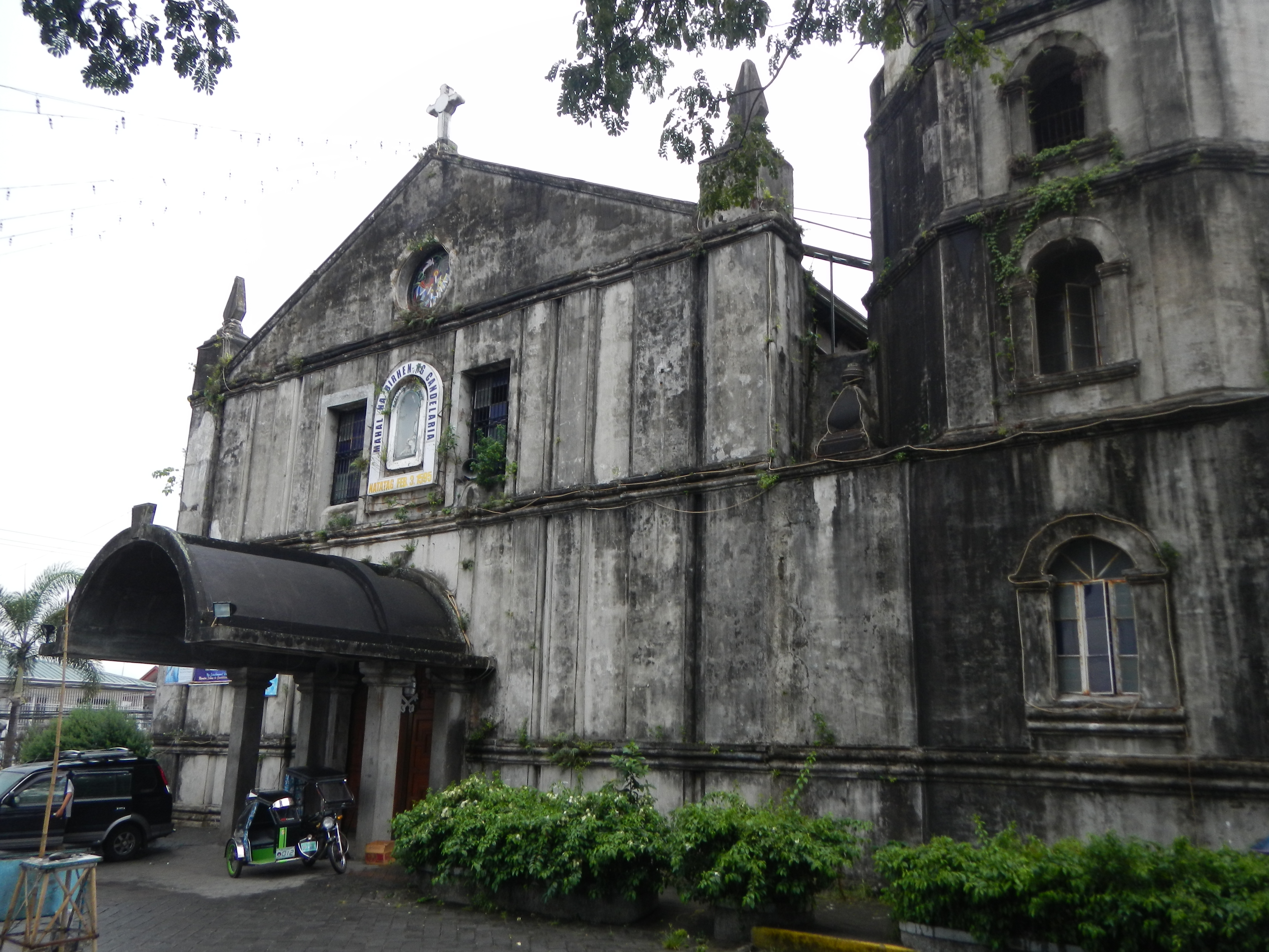 1595 Our Lady of Candelaria Parish Church of Silang –Nuestra Senora de Candelaria Church - Poblacion, Silang Proper (Jubilee Church) Silang, Cavite[1] - belongs to the Roman Catholic Diocese of Imus[2] Vicariate of Our Lady of Candelaria, Vicar Forane: Rev Fr. Ariel A. delos Reyes, Vicarial Representative: Rev. Fr. Isagani P. Aviñante District 5 District Coordinator: Rev. Fr. Agustin M. Baas [3] [4] The Church was first built by the Franciscans in 1585. Nuestra Senora de la Candelaria image was found in a mountain side in 1640 and disappeared nine times over the next few years.[5] Coordinates: 14°13'26"N 120°58'27"E Virgin of Candelaria[6] The Virgin of Candelaria or Our Lady of Candelaria (Virgen de Candelaria, Nuestra Señora de la Candelaria), popularly called La Morenita, celebrates an apparition of the Virgin Mary on the island of Tenerife, one of the Canary Islands (Spain).